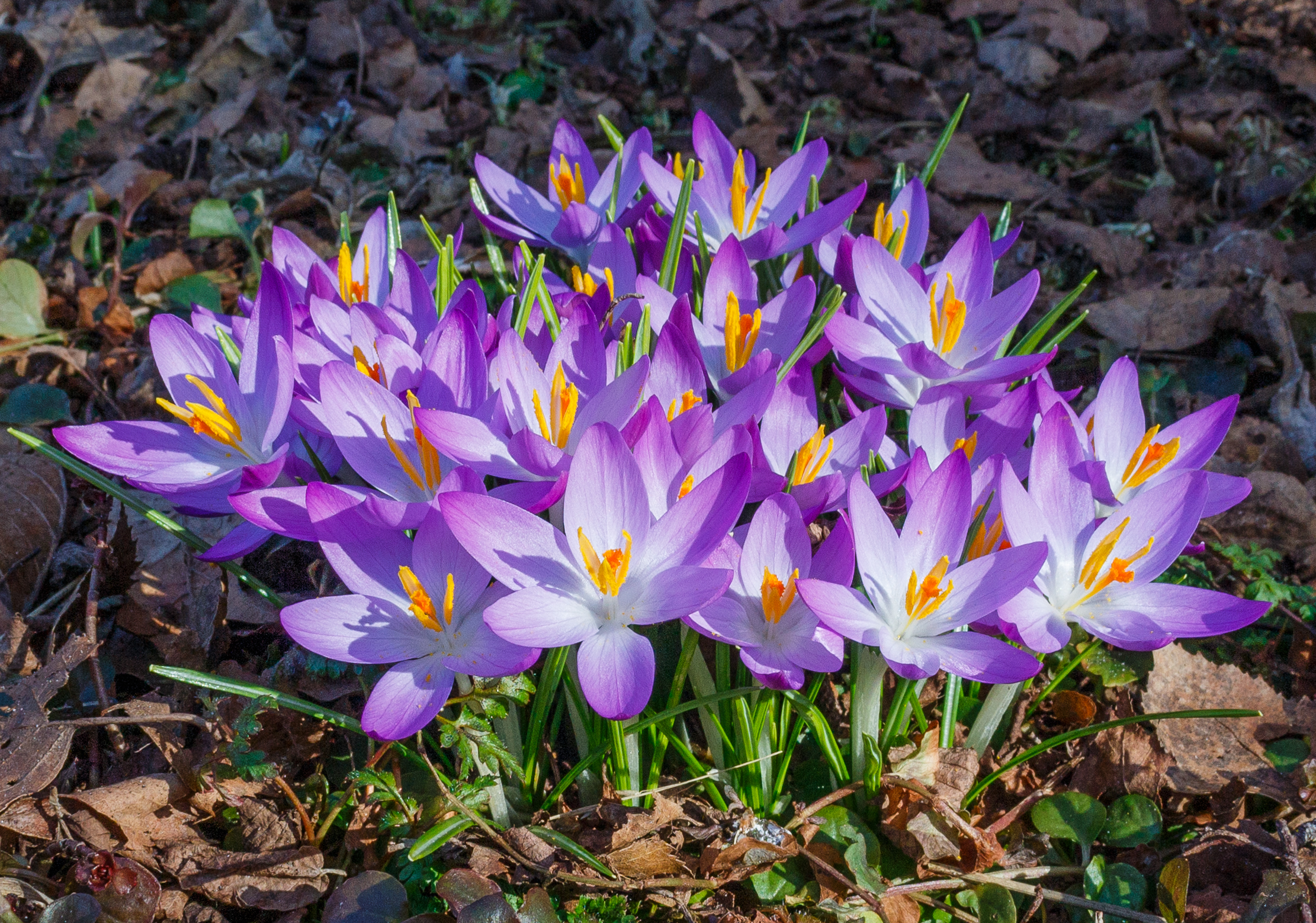 Flowering Woodland crocus in the garden reserve Jonkervallei, Joure, Netherlands.